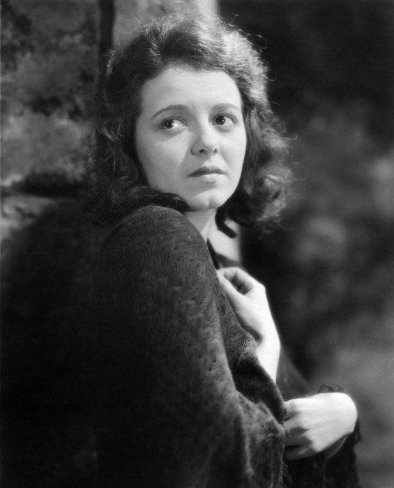 Janet Gaynor in a scene from "7th Heaven."